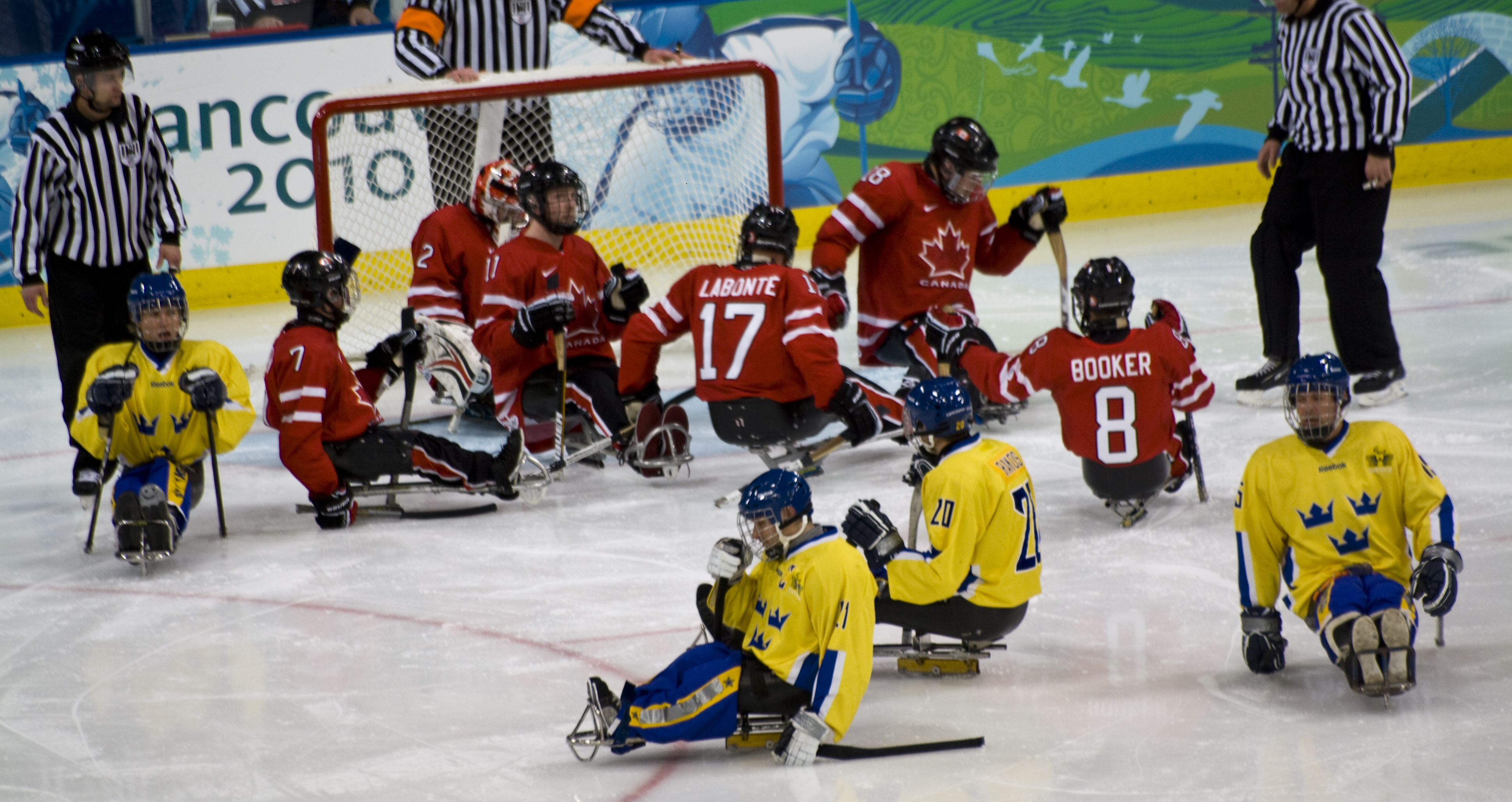 Canada's Ice Sledge Hockey team (red shirts) vs Sweden (yellow shirts), on March 14, at the UBC Thunderbird Winter Sports Centre, Vancouver, British Columbia, Canada, during the Winter Paralympics 2010..